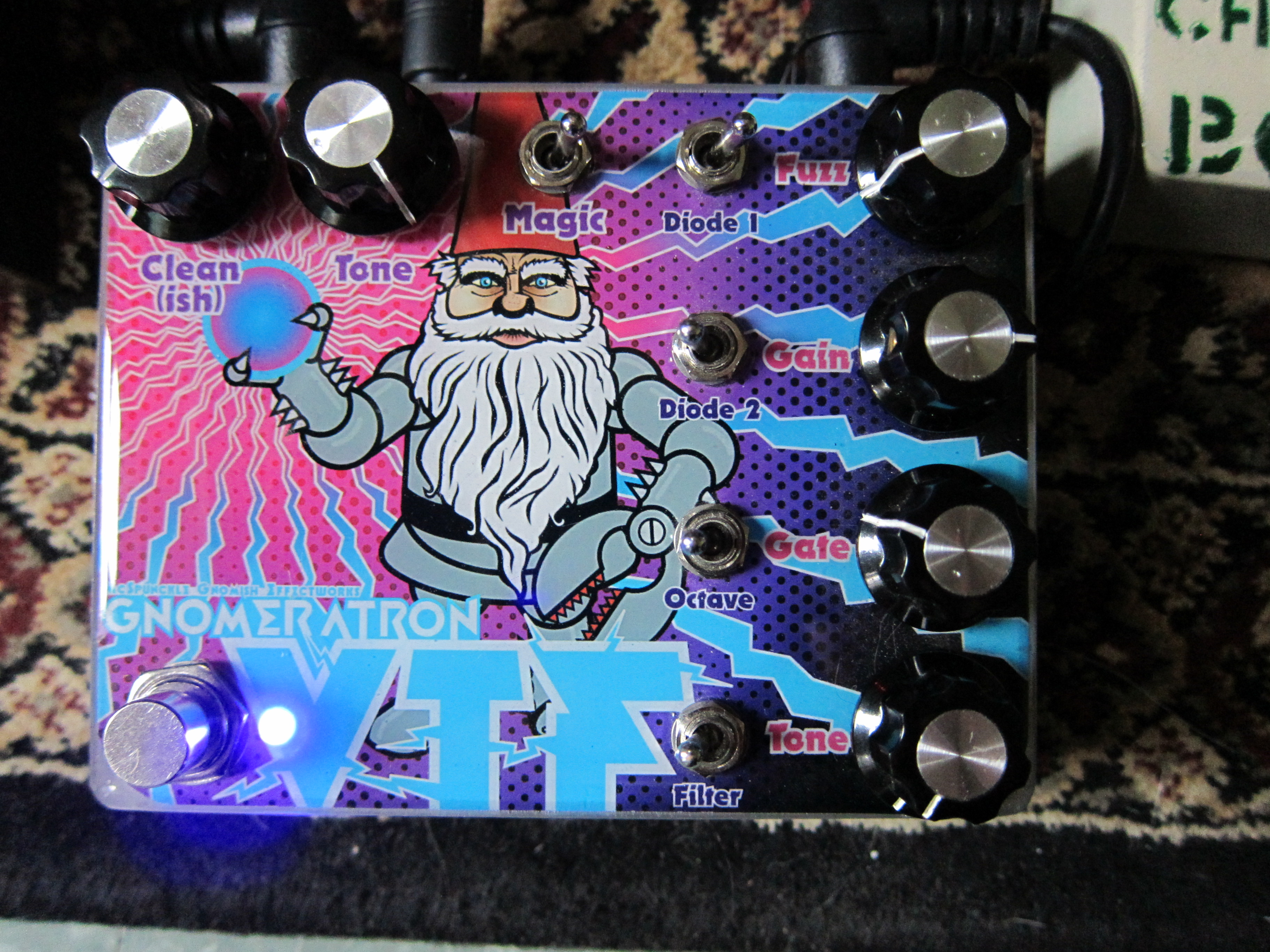 McSpunckle Gnomish Effectworks Gnomeratron VTF